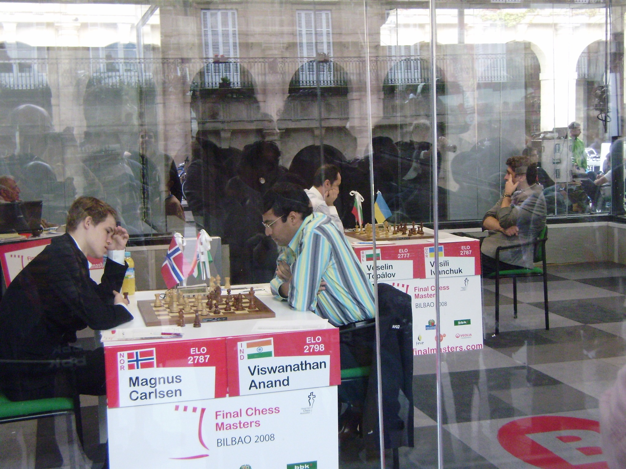 Bilbao Chess Masters Final 2008. Foreground: Magnus Carlsen against Viswanathan Anand. Background: Veselin Topalov again Vasili Ivanchuk.